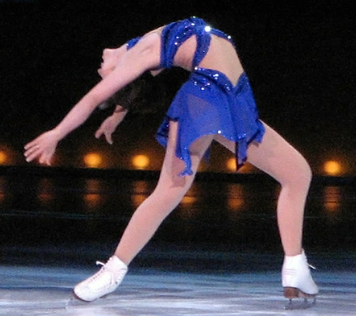 Shizuka Arakawa performs her signature Ina Bauer at the 2006 Champions on Ice show in San Jose, CA.